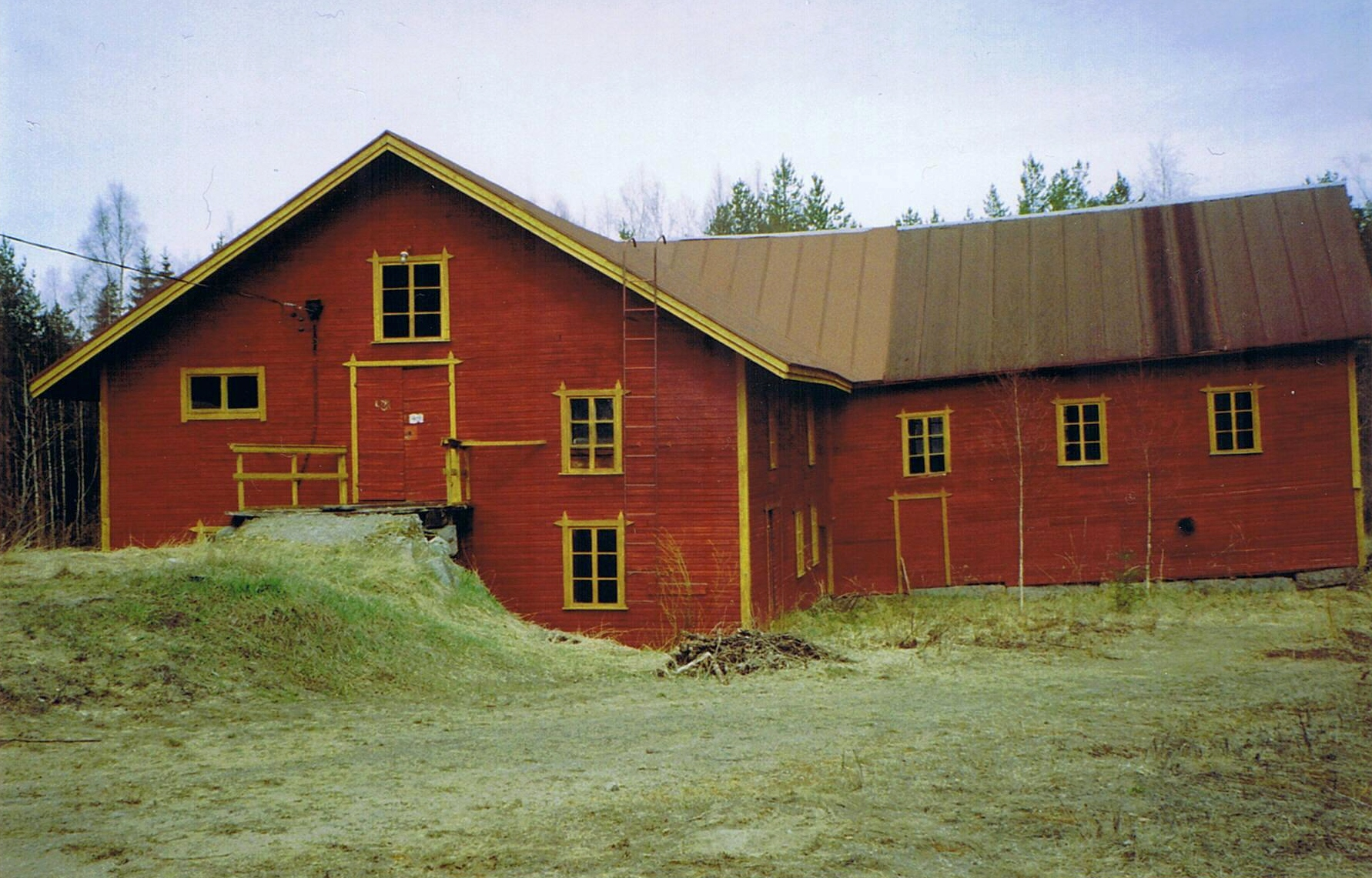 Tekevä flour mill (Tekevän mylly) in Pyhäjoki, Finland